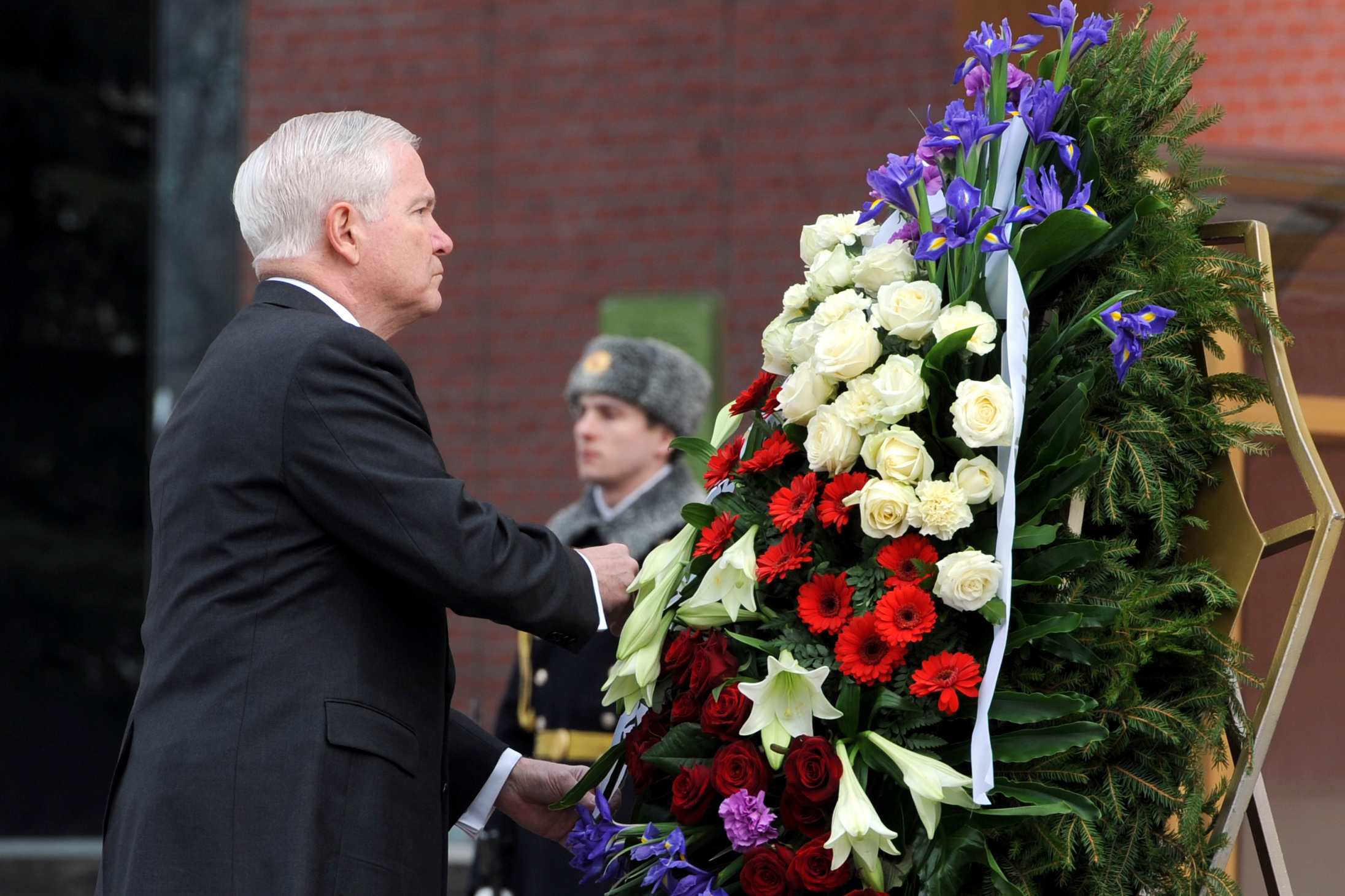 Secretary of Defense Robert M. Gates lays a wreath at the Tomb of the Unknown Soldier in Moscow, Russia, on March 22, 2011.